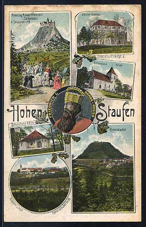 Postcard from castle Hohenstaufen